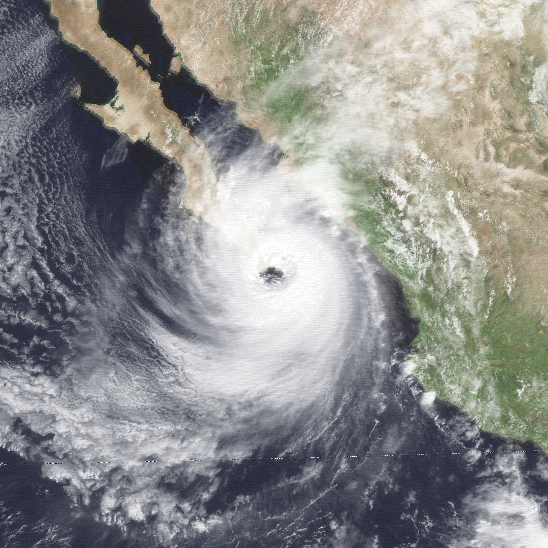 Hurricane Paul at peak intensity near landfall on the Baja Peninsula on September 28, 1982